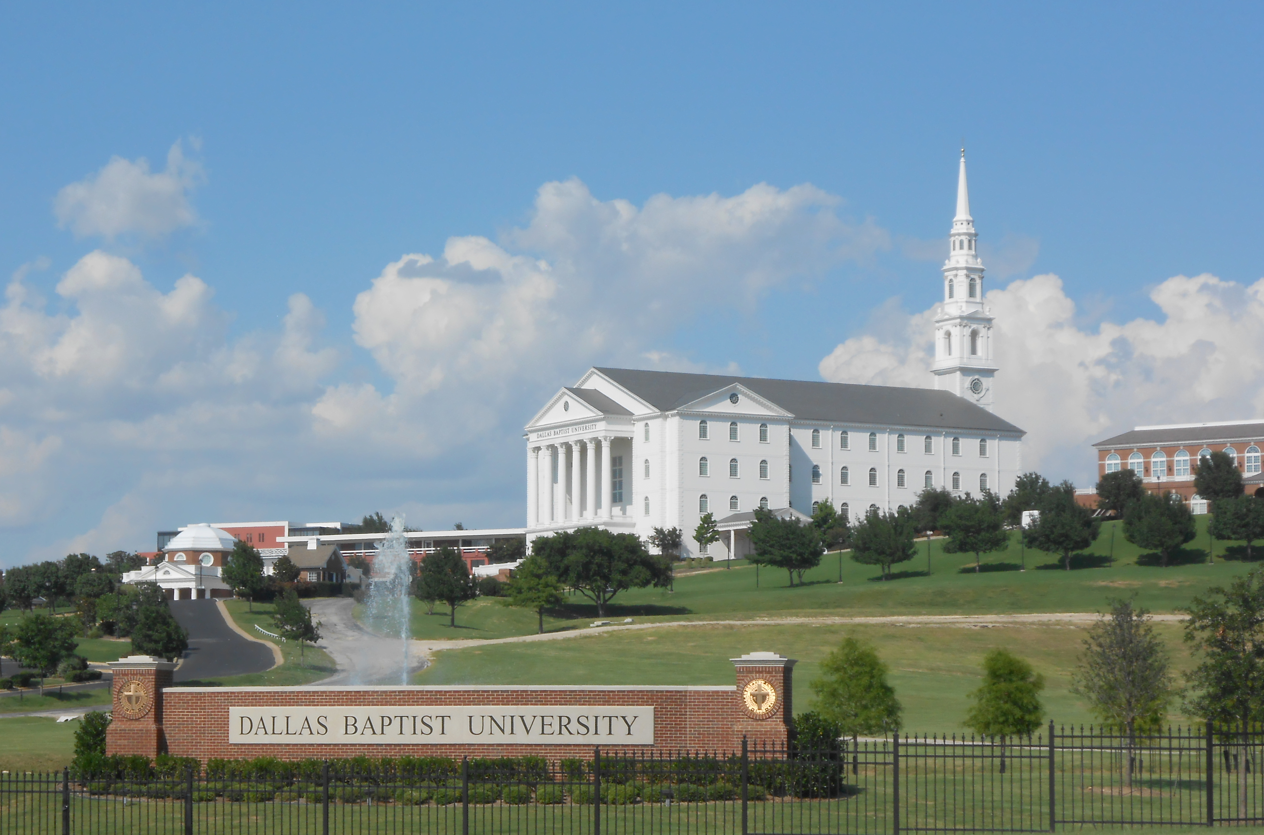 A photo of Dallas Baptist University, 2016.